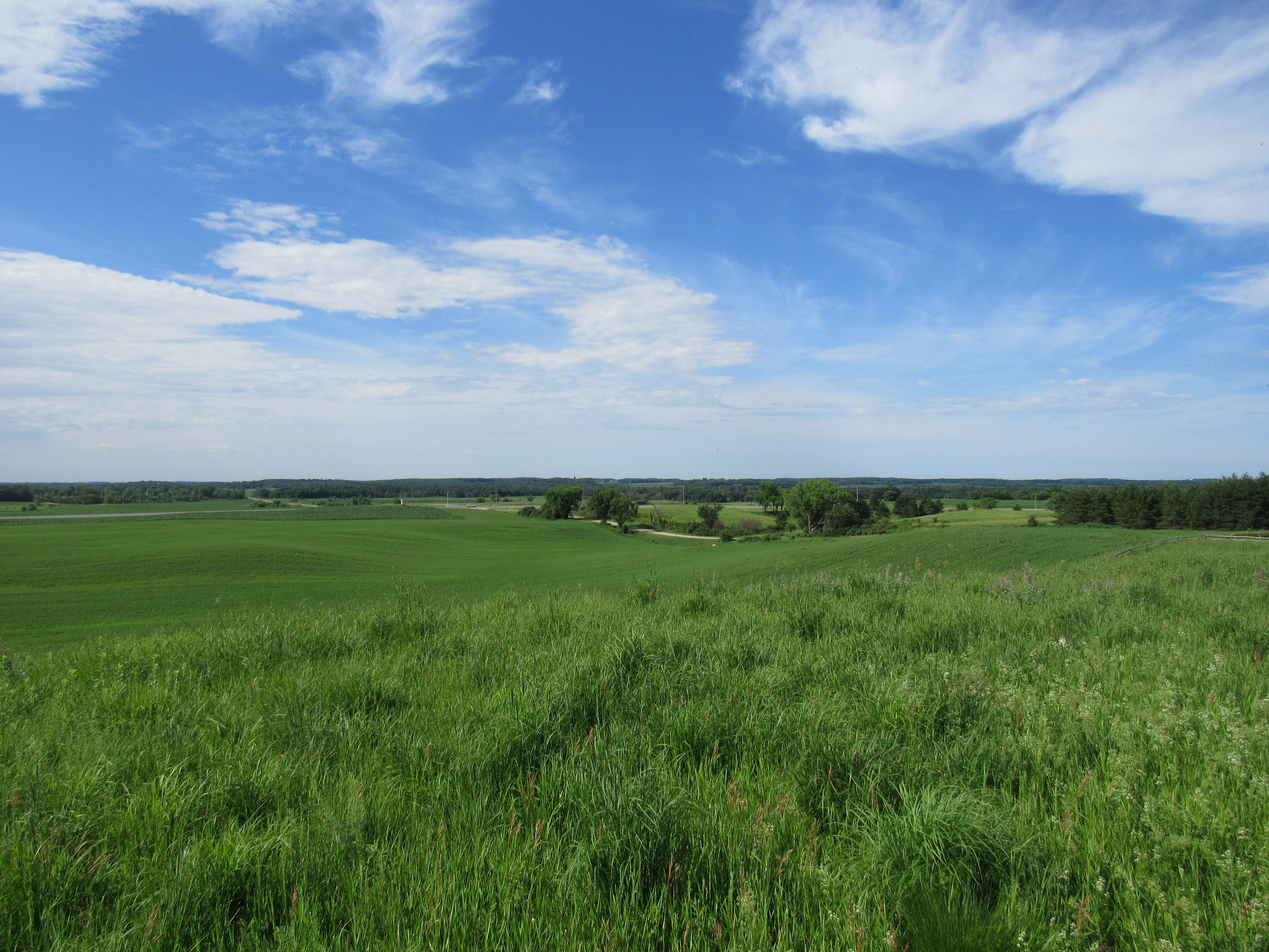 The view from Fort Juelson in Tordenskjold Township, Otter Tail County, Minnesota looking southwest.